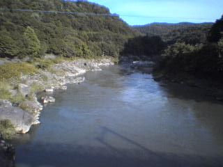 Ishikari river at Kamui Kotan, Asahikawa city, Hokkaido, Japan. Too low resolution because it's taken by mobile phone camera. Please substitute if you have pics with better quality.